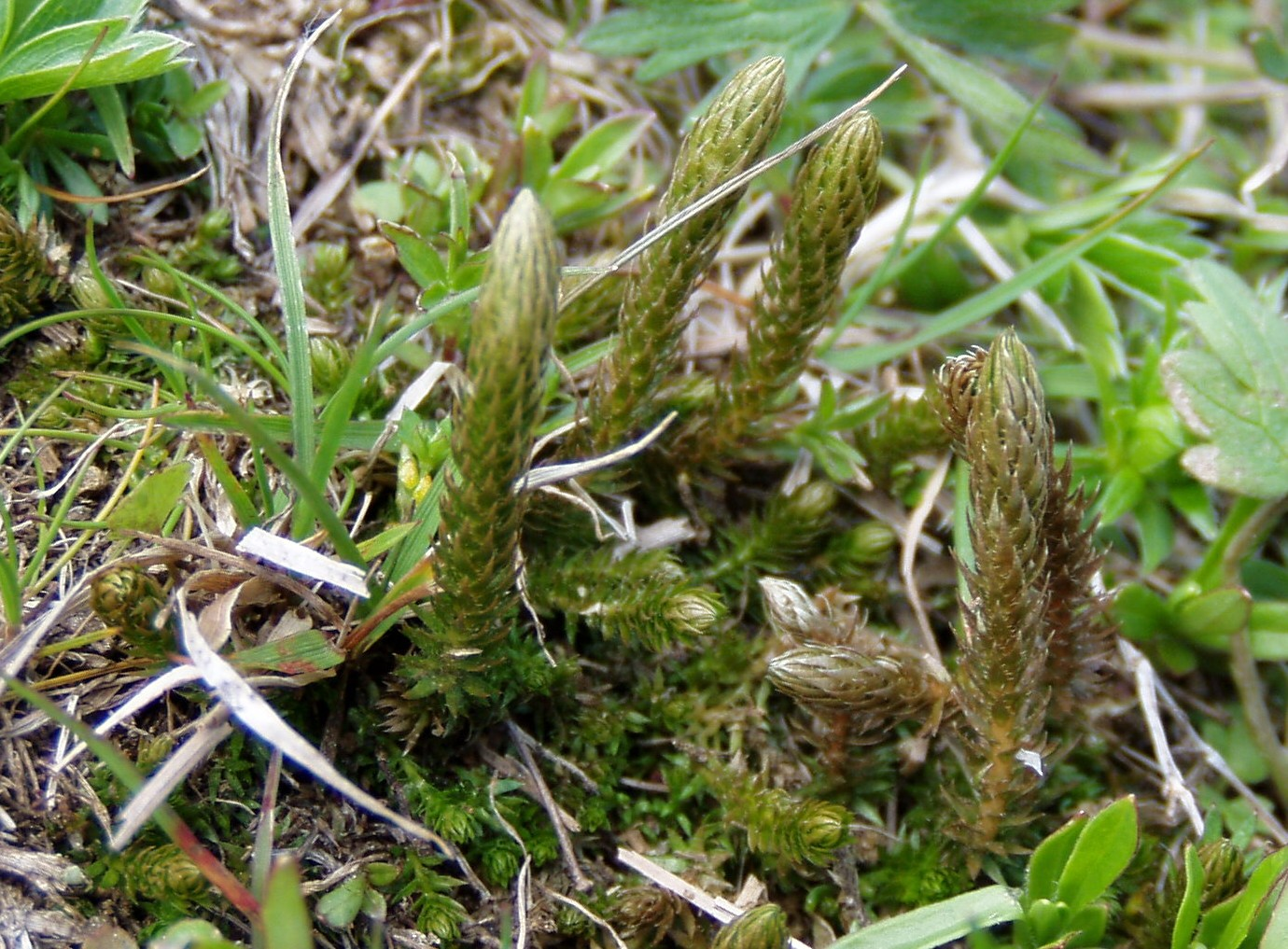 Selaginella selaginoides, photo taken at Rax, Lower Austria. Approx. 1600 m